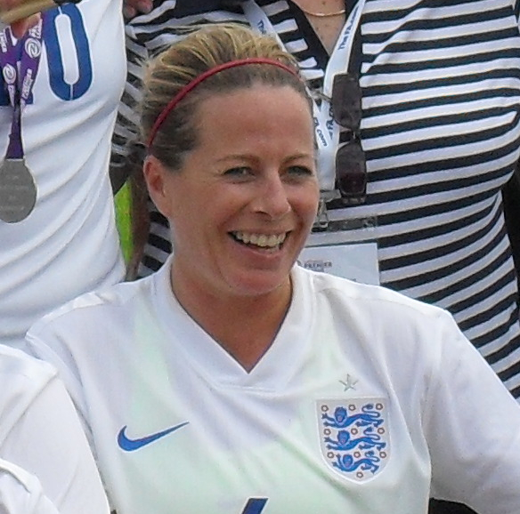 Rachel Stowell in August 2015